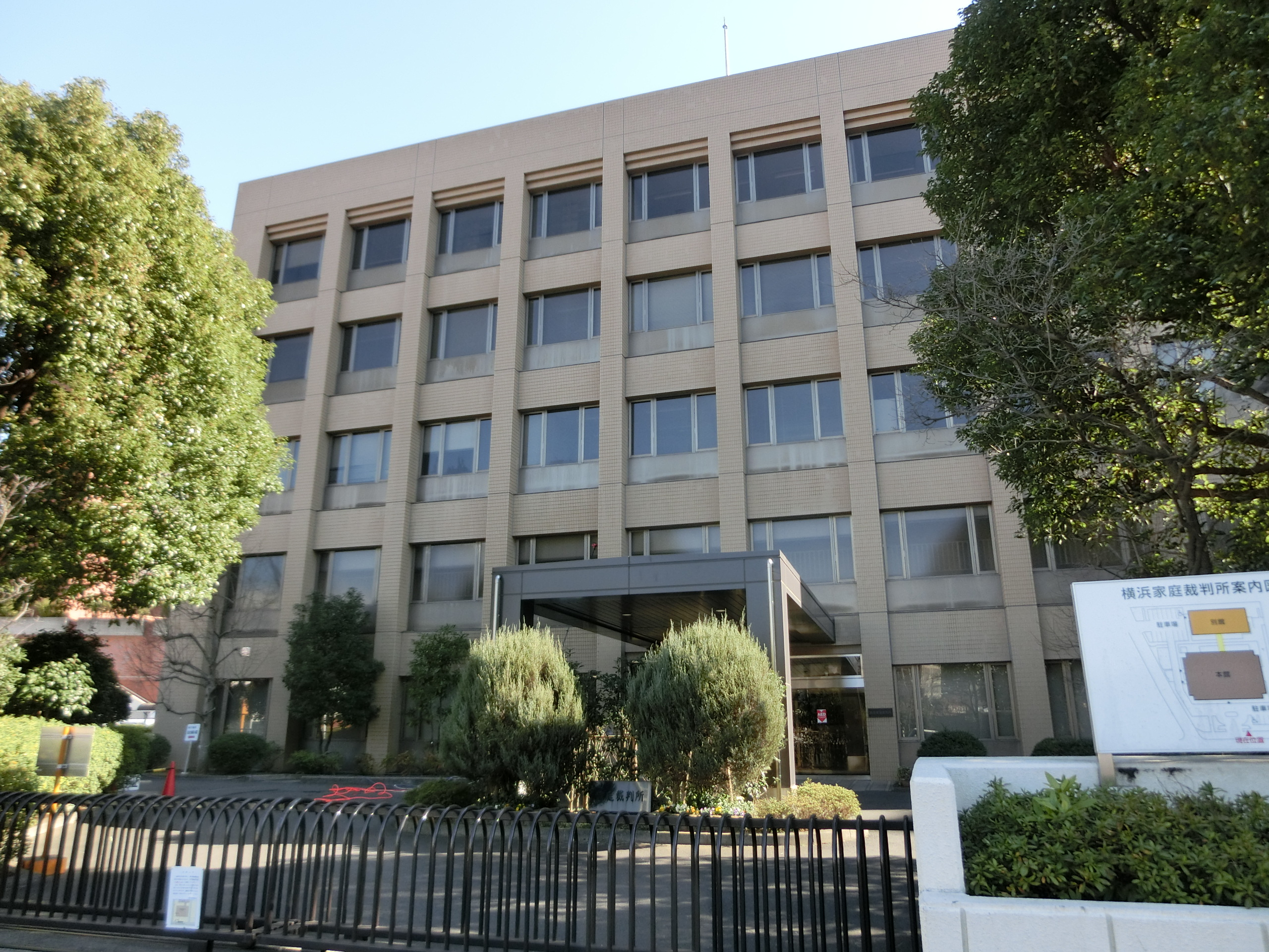 Yokohama Family Court